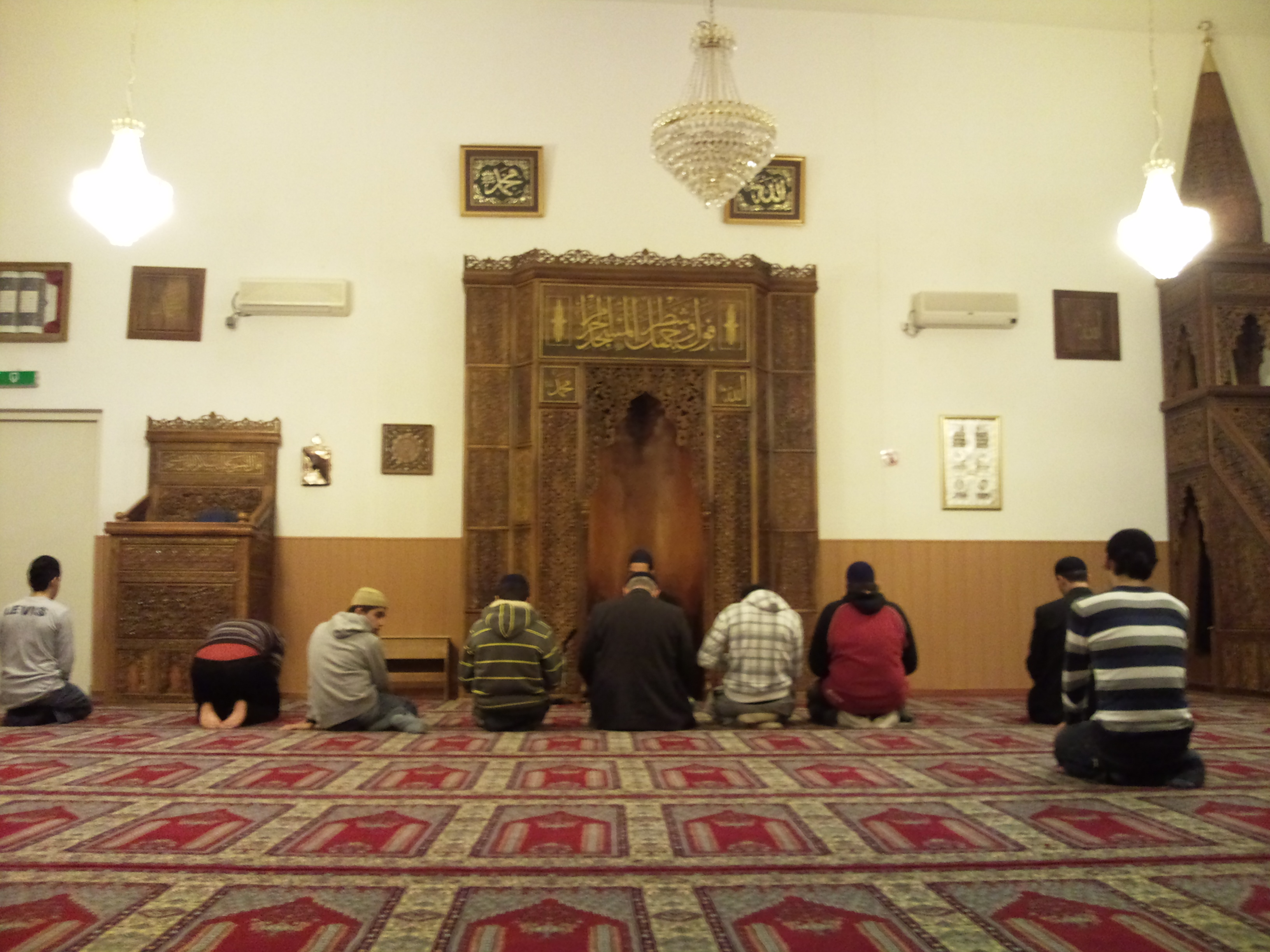 Interior of the Krekelstraat Mosque, Nijmegen, the Netherlands, man are making du'a.